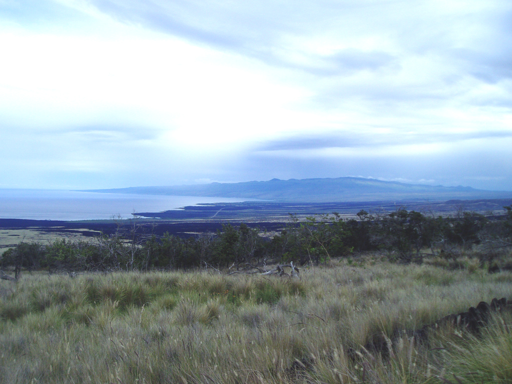 South Kohala District from Mamalahoa Highway — island of Hawai’i.